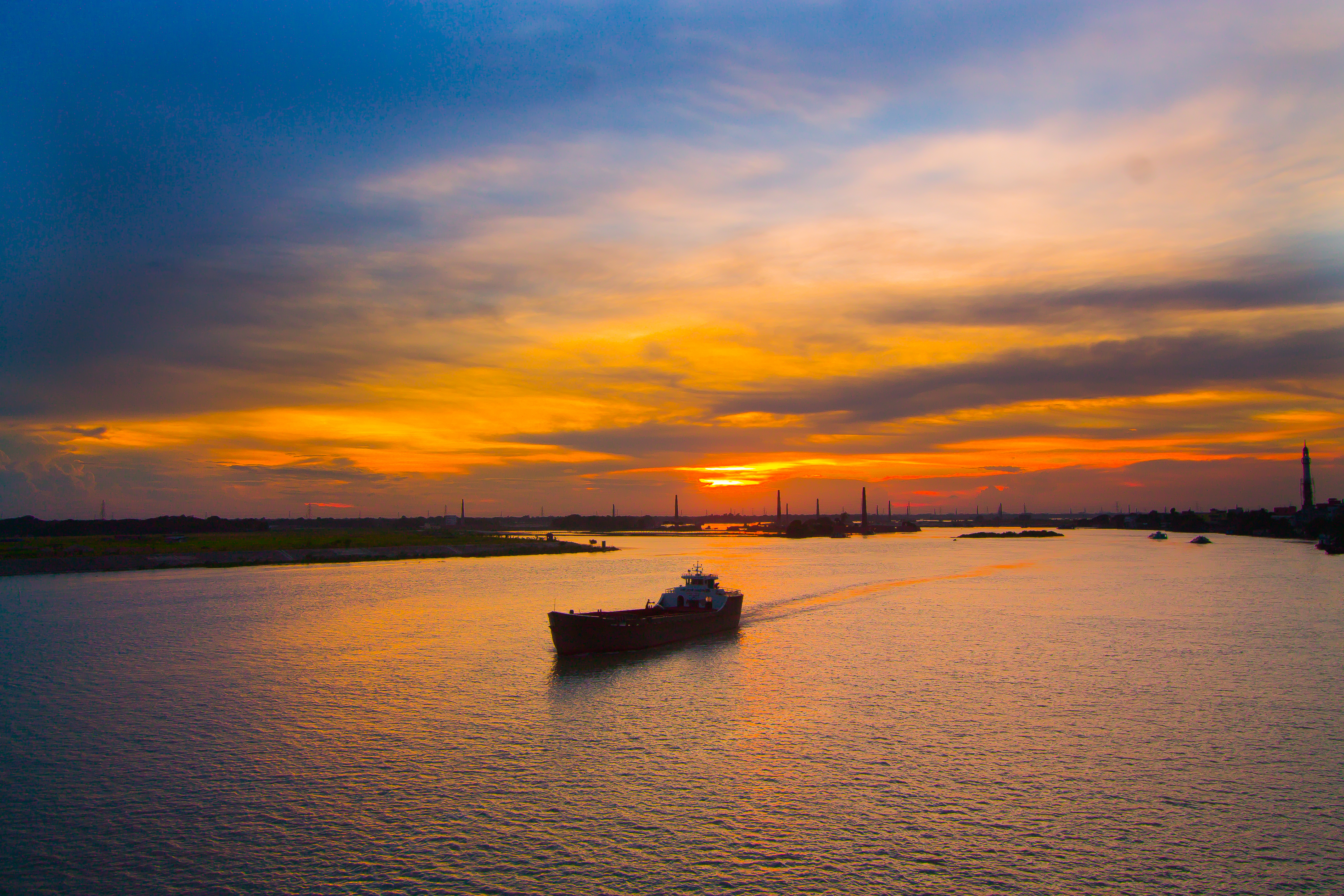 A sunset view of Burigonga River, Dhaka, Bangladesh